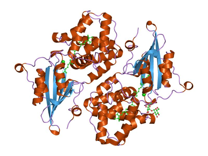 Cartoon representation of the molecular structure of protein registered with 1m98 code.